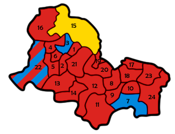 Ward map of the Wigan council with political colouring for the 1979 election. Striped wards denote mixed representation, with uneven thickness showing a 2:1 ratio. Colours: Labour Conservative Liberal